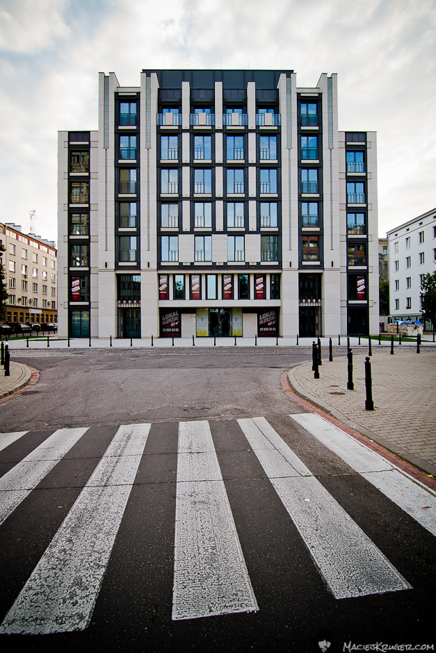 Foksal Residence - view form the Kopernik Street 2